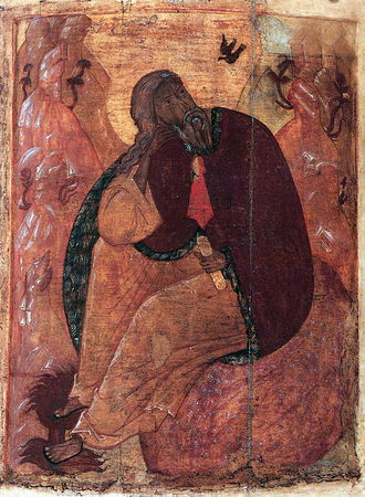 The prophet Elijah in the desert, Eastern Orthodox icon